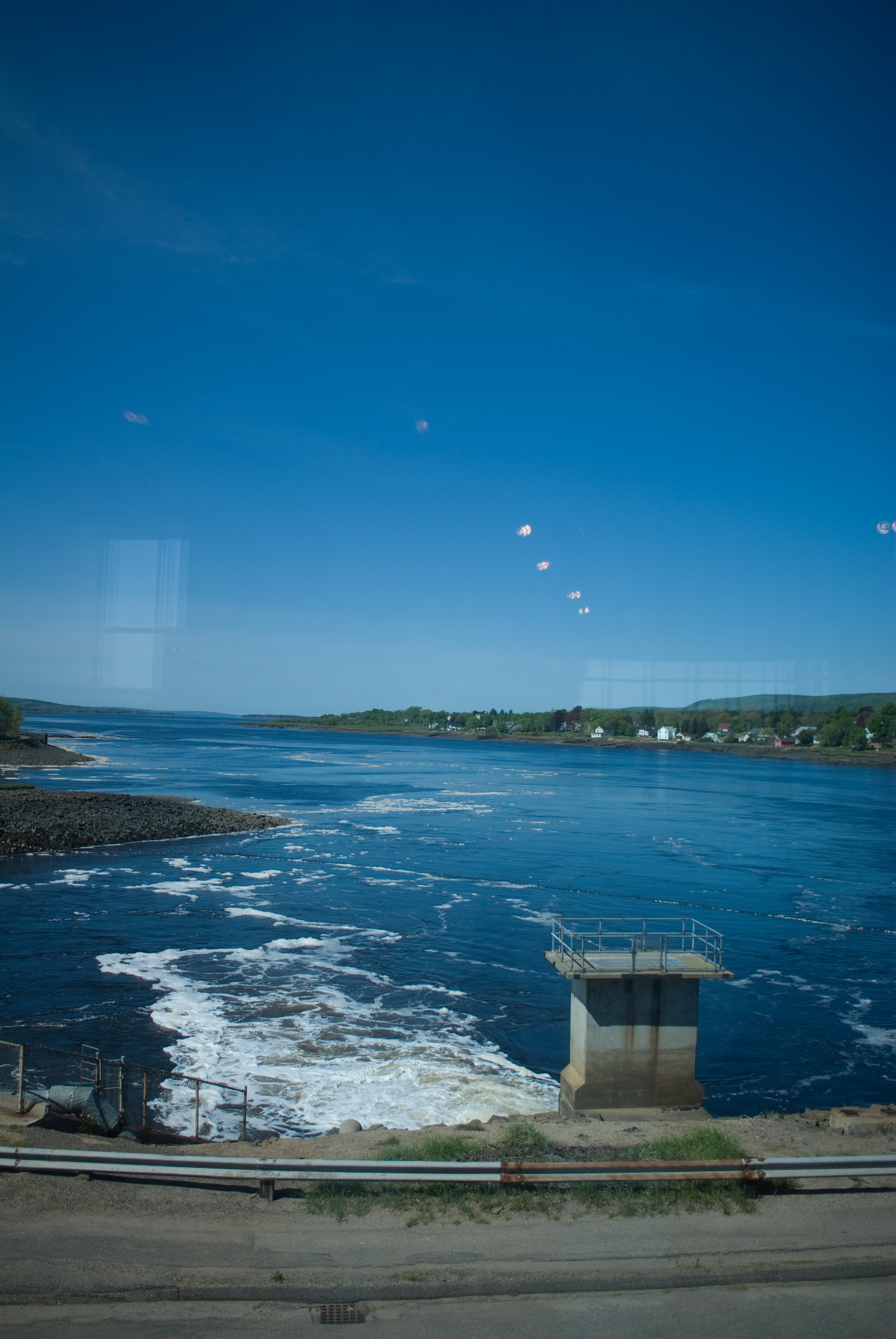 The Tidal Generating Station in Annapolis Royal is the only tidal power facility in North America. Effectively relying on the principles of a watermill, the station captures the ebb and flow of the tides from the Bay of Fundy, which has the highest tides in the world. The station currently produces 18 MW of power, although there are proposals to build a more substantial Fundy tidal project.